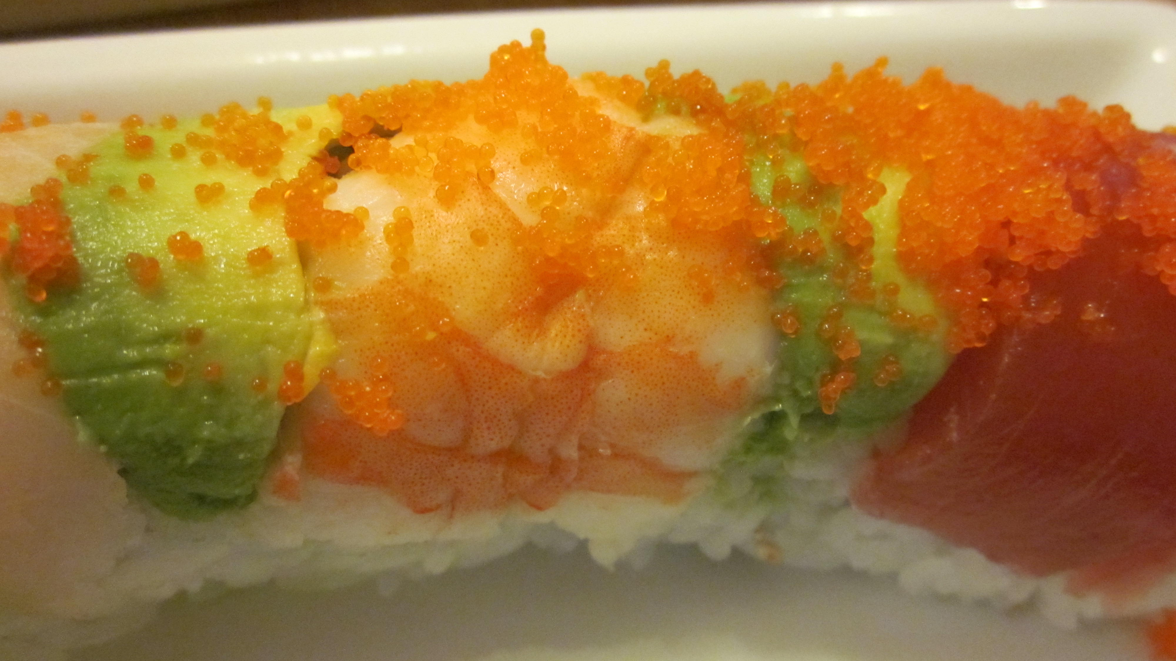 A rainbow roll from Sunny Sushi in San Bruno, California.